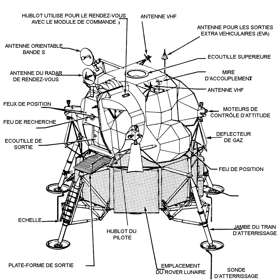 Apollo Program : line drawing of lunar module spacecraft (french)